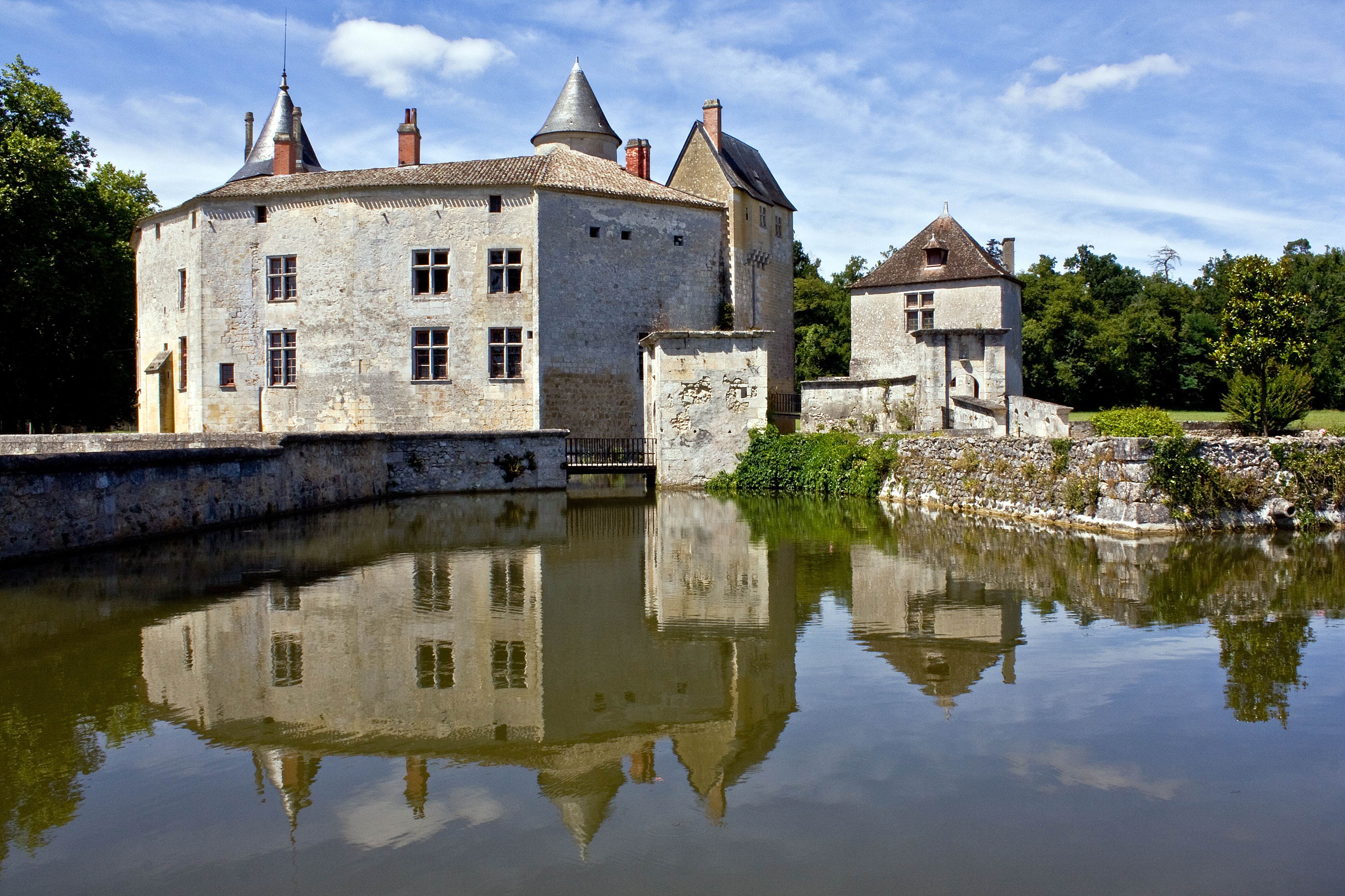 Chateau Montesquieu at La Brede. The feudal castle once belonging to Montesquieu